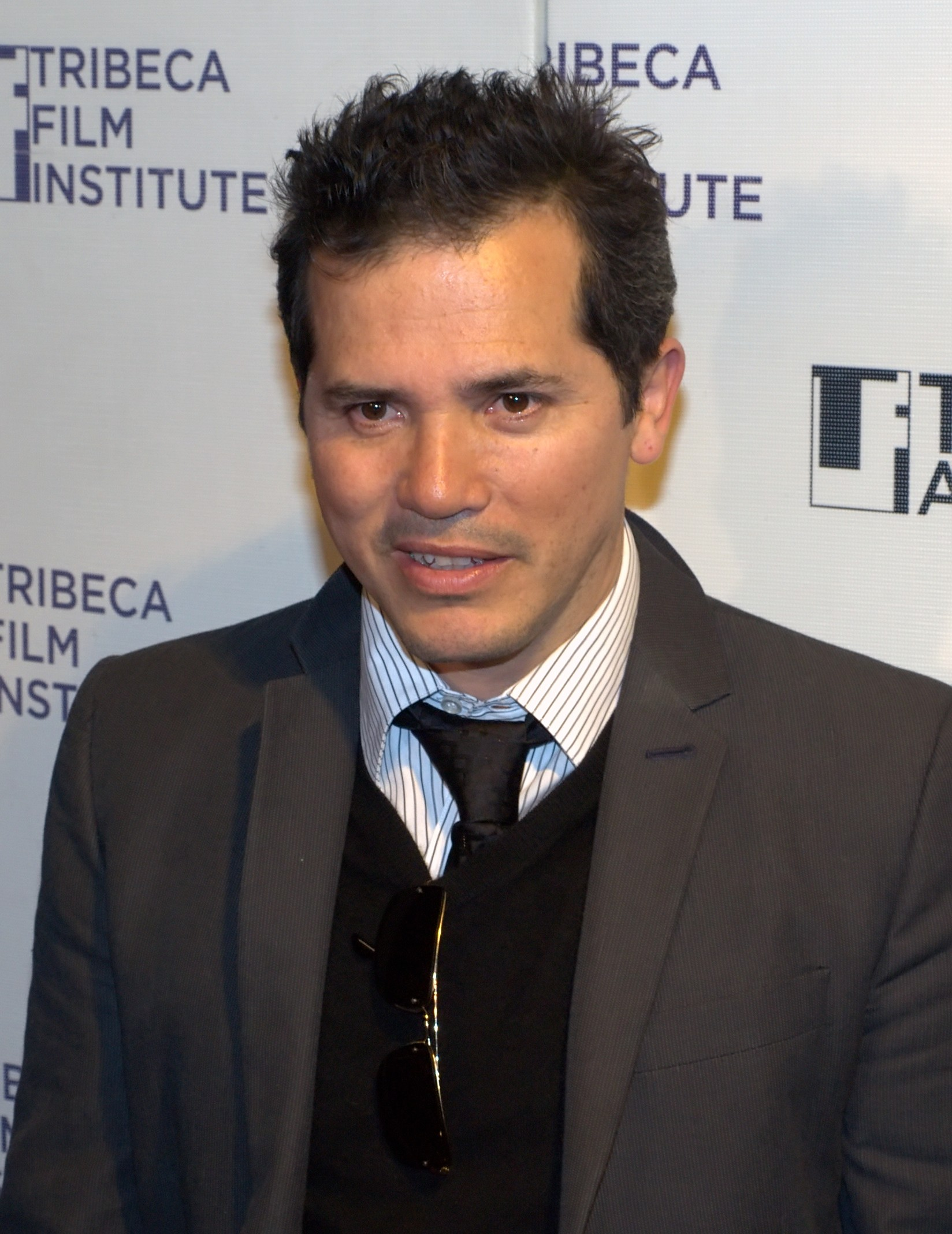 John Lequizamo at Tribeca Film Festival 2010